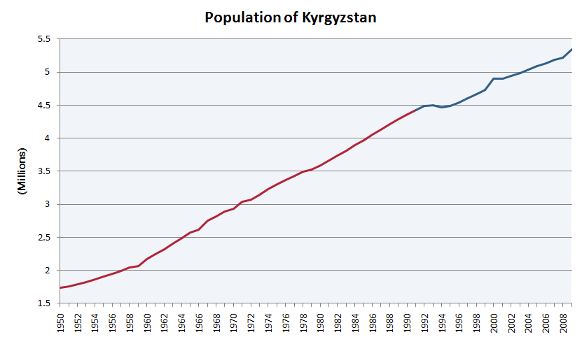 Kyrgyzstan's population (1950-2009). [Data